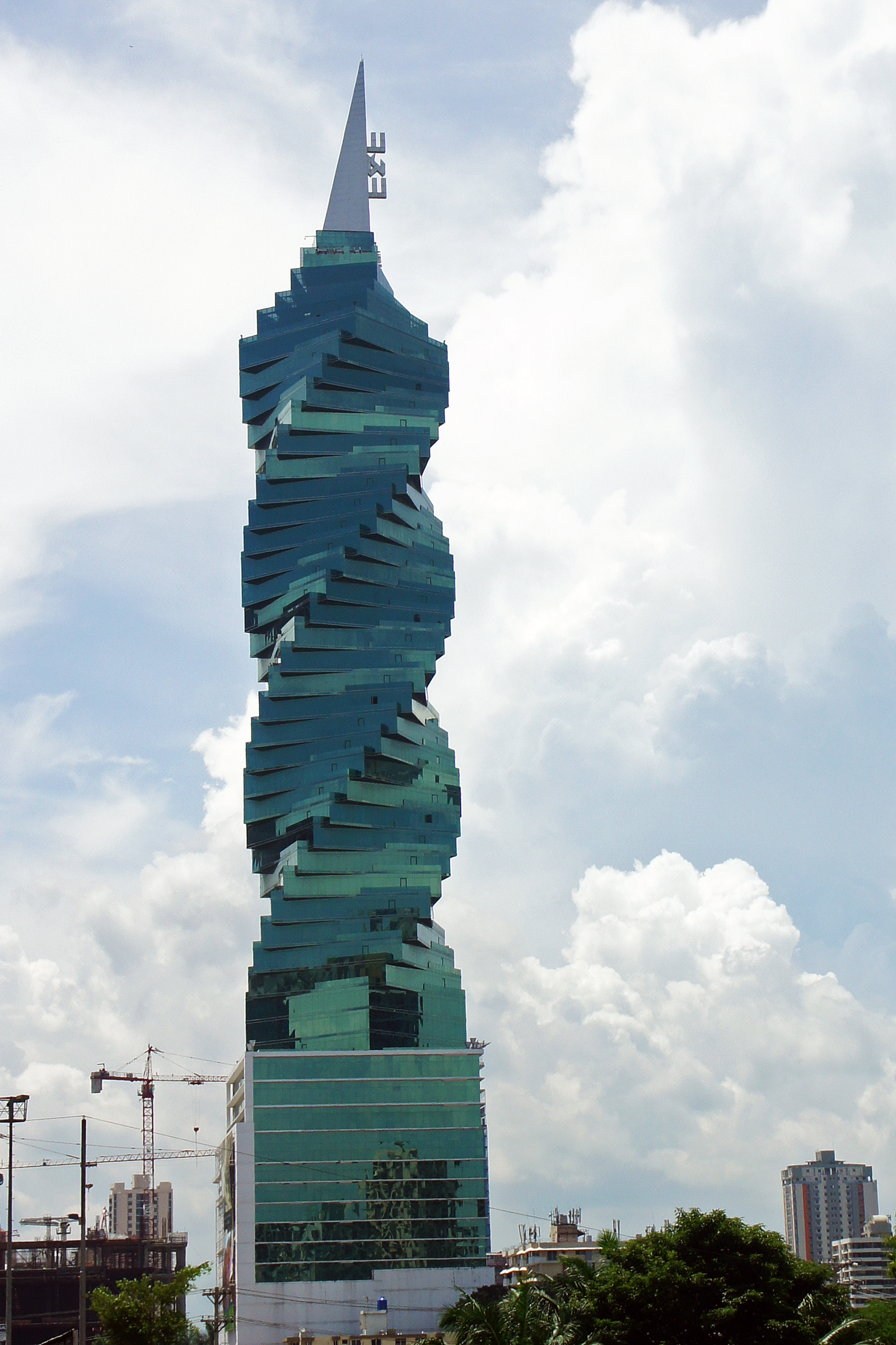 F&F Tower (known as Revolution Tower during its construction) in Panama City, Panama.